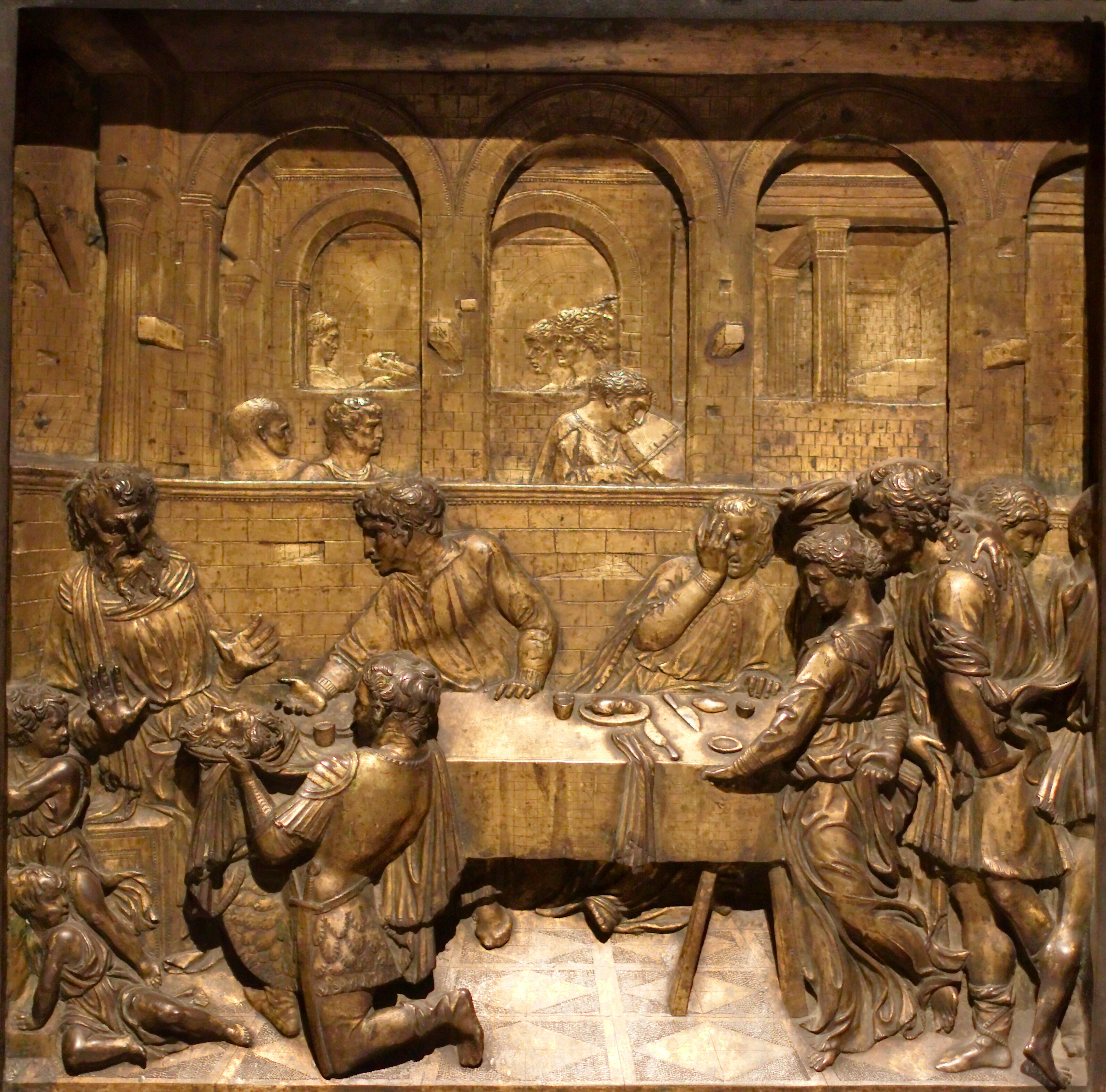 Baptismal font of the Siena Baptistry, Donatello